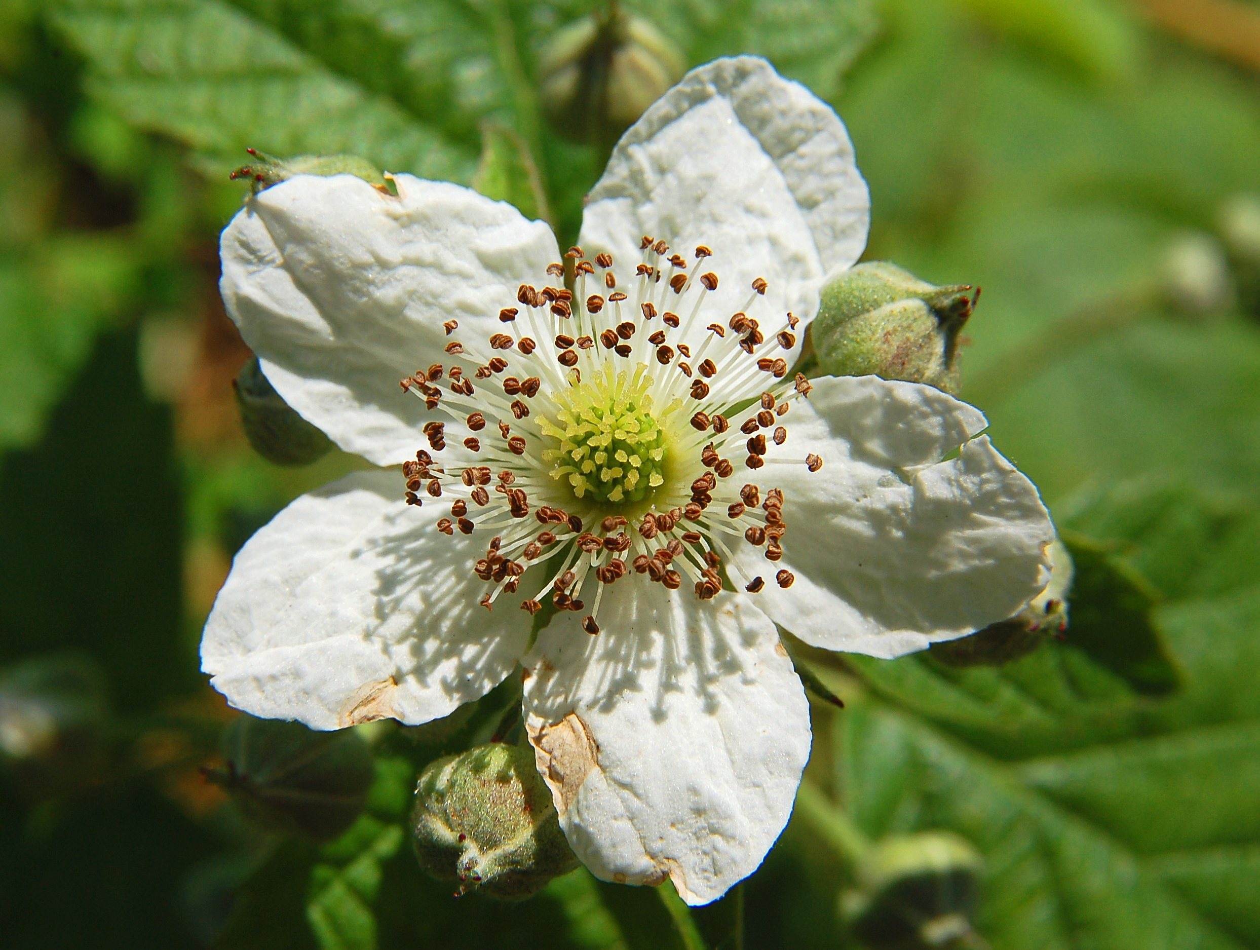 Rubus fruticosus flower in Belgium (Hamois).